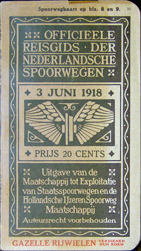 Railway timetables of The Netherlands in 1918